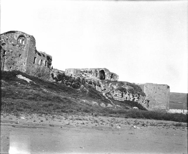 Castle of Cizîra Botan (Cizre), the capital of the Kurdish Bedirxan dynasty.Kurdî: Kelheya Cizîra Botan di sala 1908'an de. Li aliyê rastê Birca Belek tê dîtin.